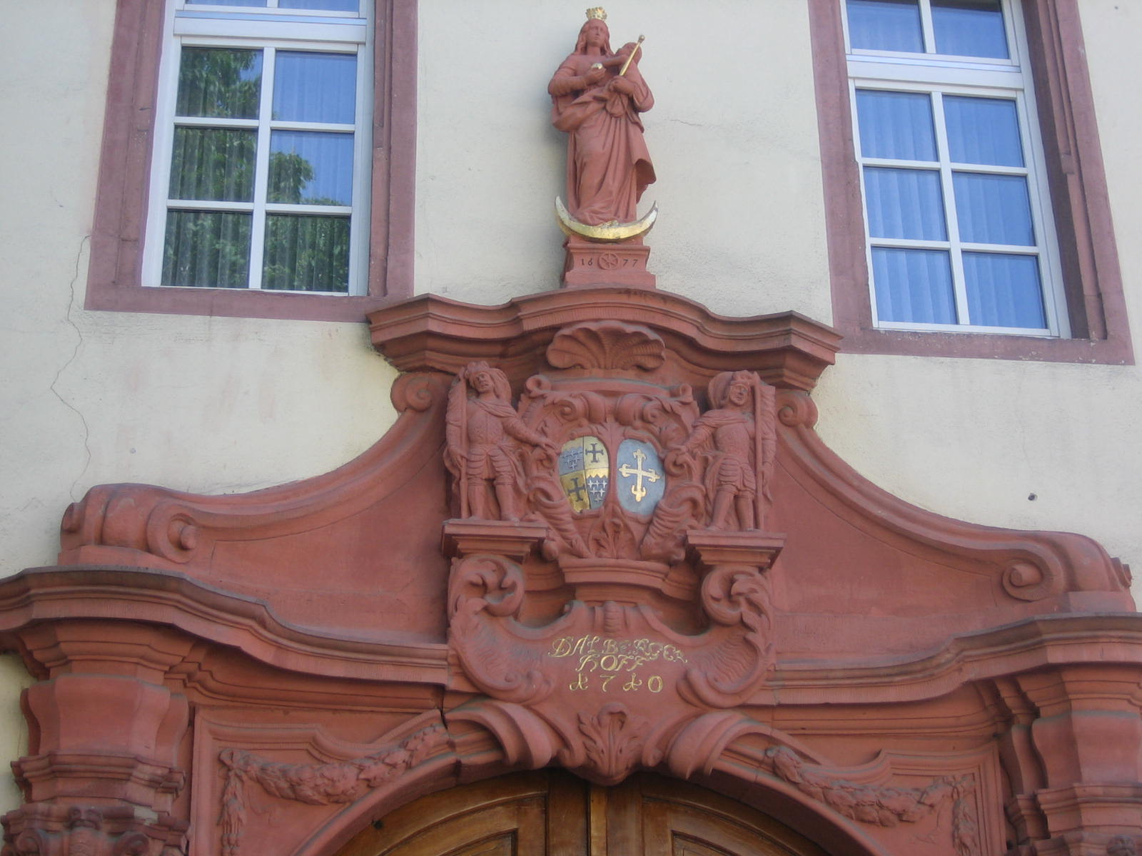 Dalberg arms on top of the door of Old Palais Dalberg, now Institute of the Blessed Virgin Mary, Mary Ward-school.